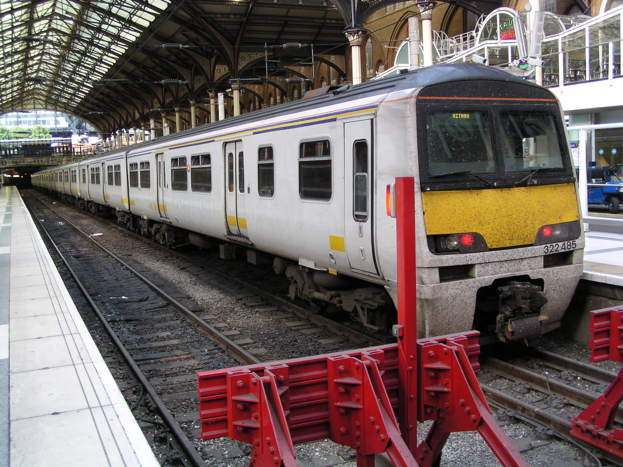 BR Class 322, no. 322485 at London Liverpool Street on 1st August 2004. This unit still carries the obsolete Stansted Skytrain livery, and is currently operated by en:'one'. Image by Phil Scott (Our Phellap)